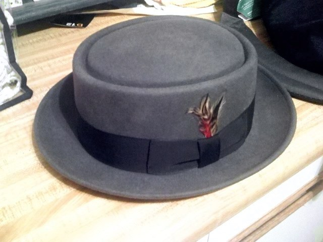 Grey pork pie hat with a band and a feather.